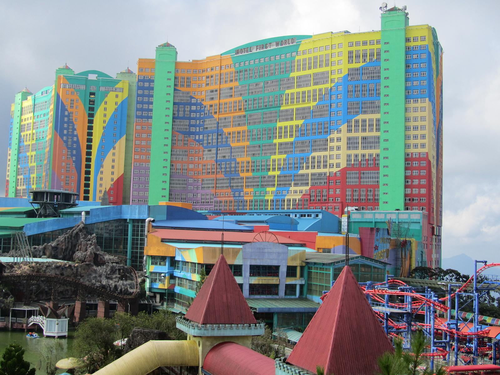 First World Hotel, Genting Highlands Malaysia, Towers 1&2 and outdoor theme park